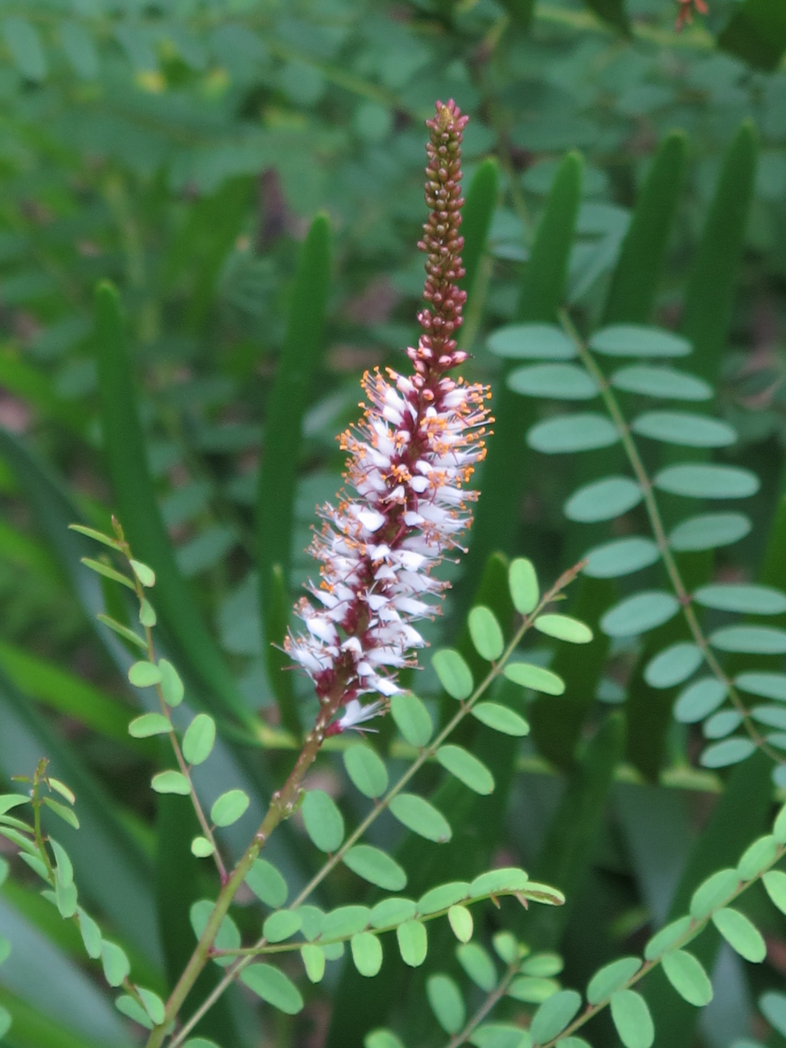 Amorpha herbacea var crenulata syn Amorpha crenulata "cultivated, Campus, Florida International University, Miami, Florida, USA. This is a Faboid legume that lacks the typical form of a Faboid legume flower. As the genus name suggests, it is a "shapeless" legume."